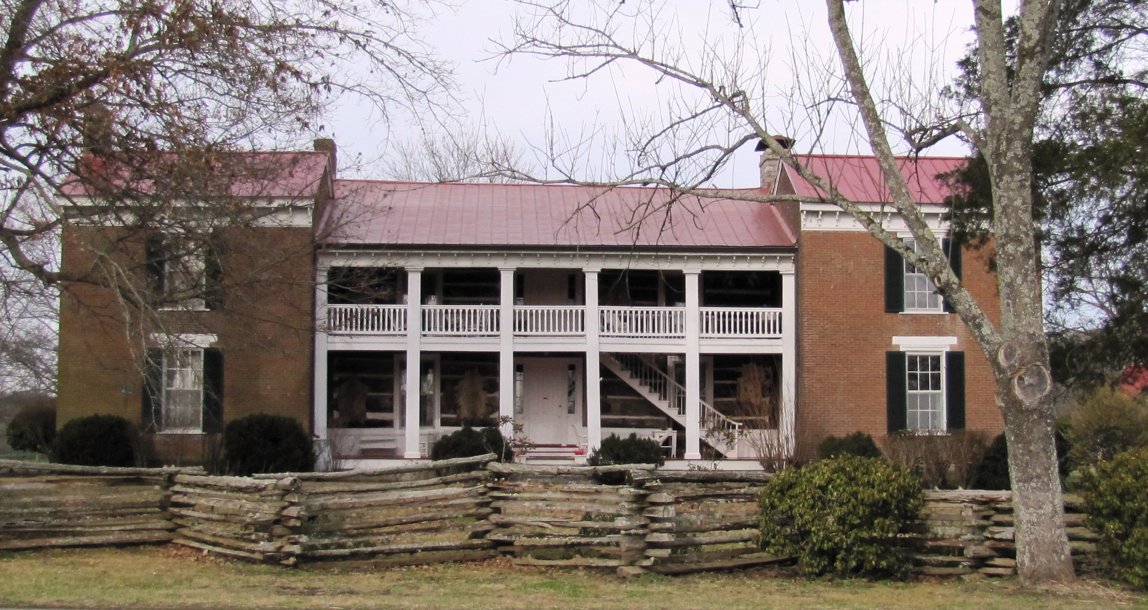 Dixona, the 18th-century house of Captain Tilman Dixon, a Revolutionary War veteran who settled in the area in the 1780s. This house was used as a temporary courthouse for Smith County in 1799.